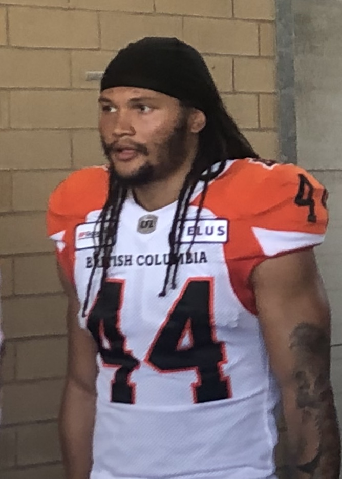 Isaiah Guzylak-Messam, defensive back for the BC Lions.